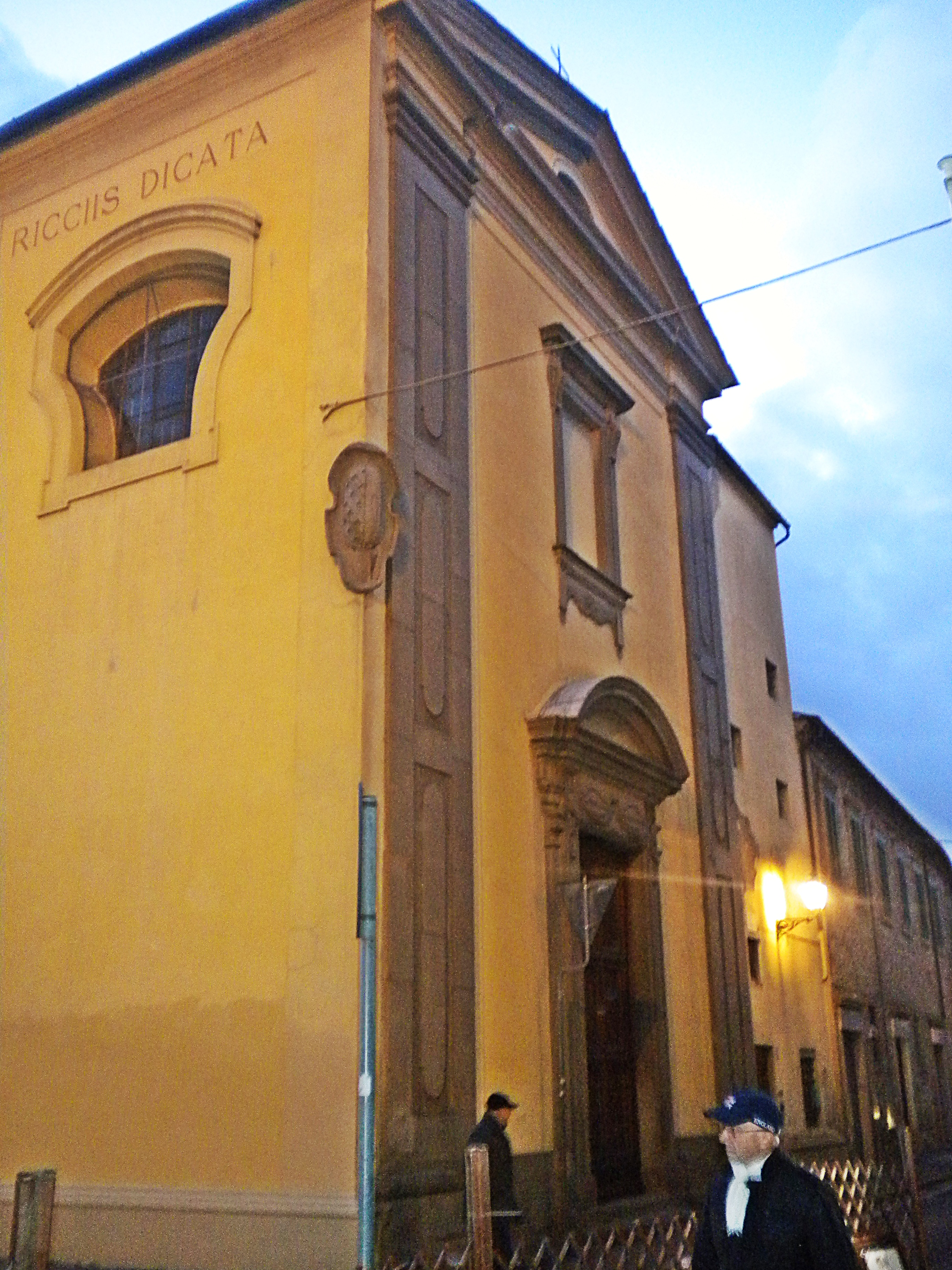 san vincenzo by night